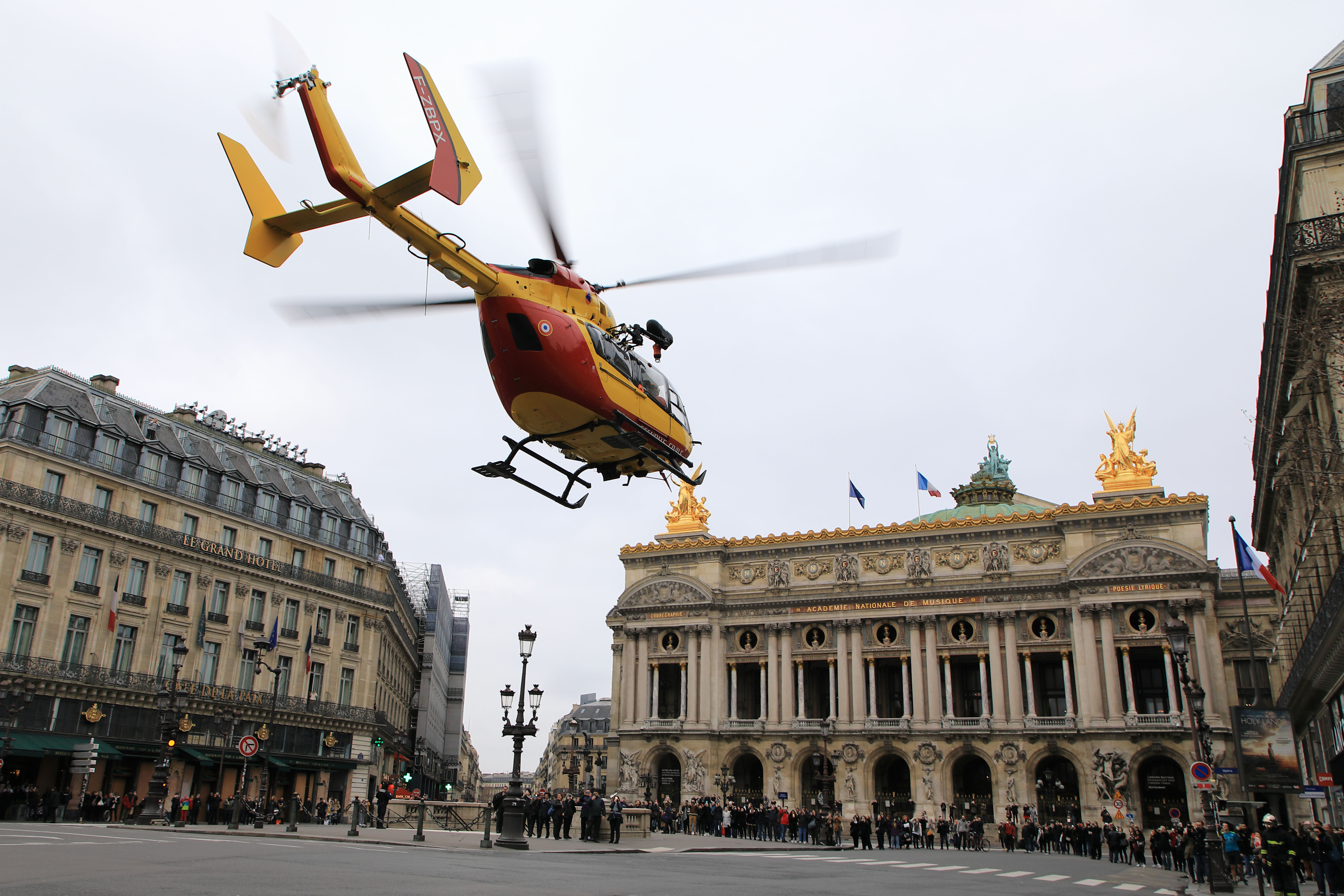 French Sécurité civile H145 helicopter during a medevac mission in downtown Paris. Place de l'Opéra - January 12, 2019.